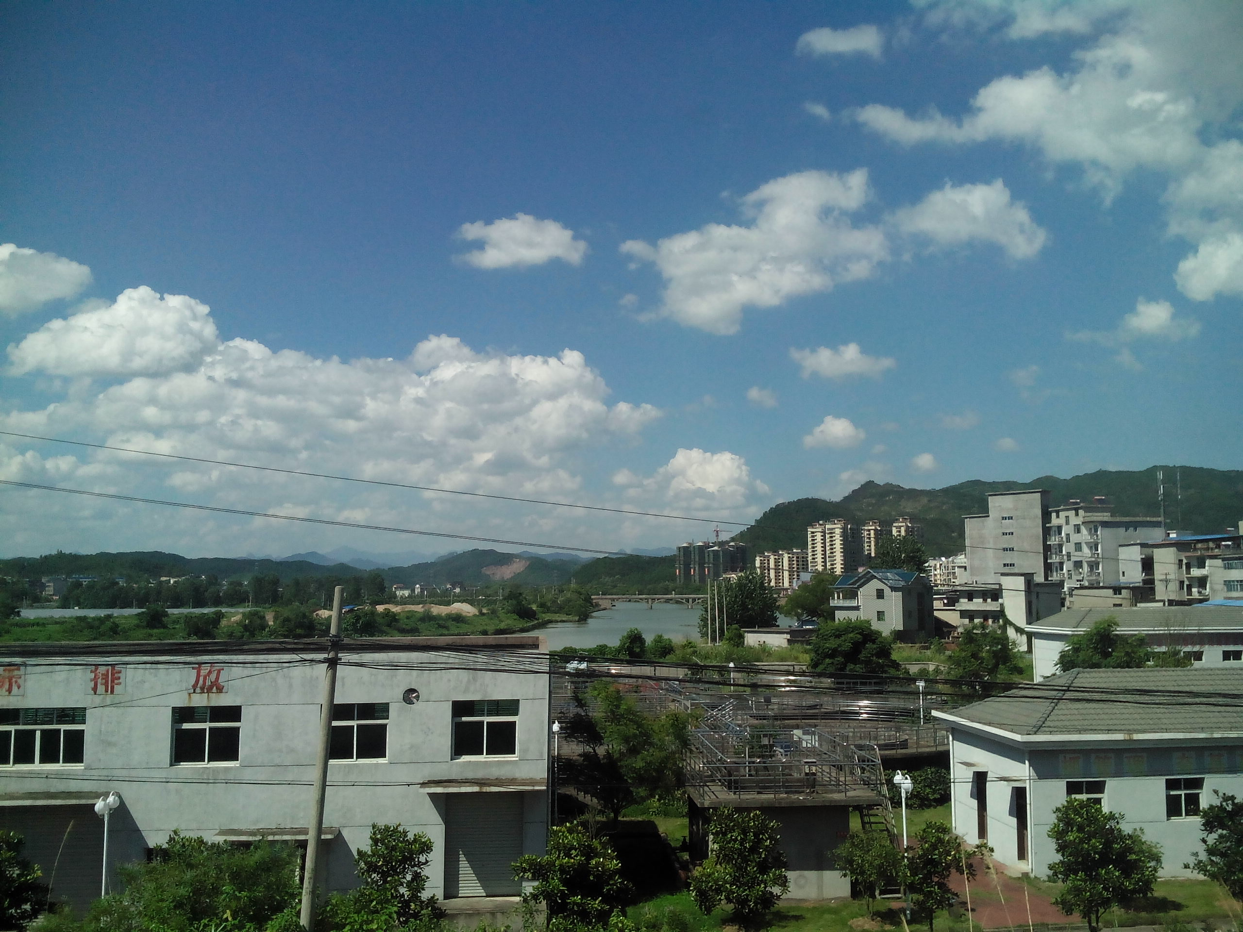 201506 Hengfeng County